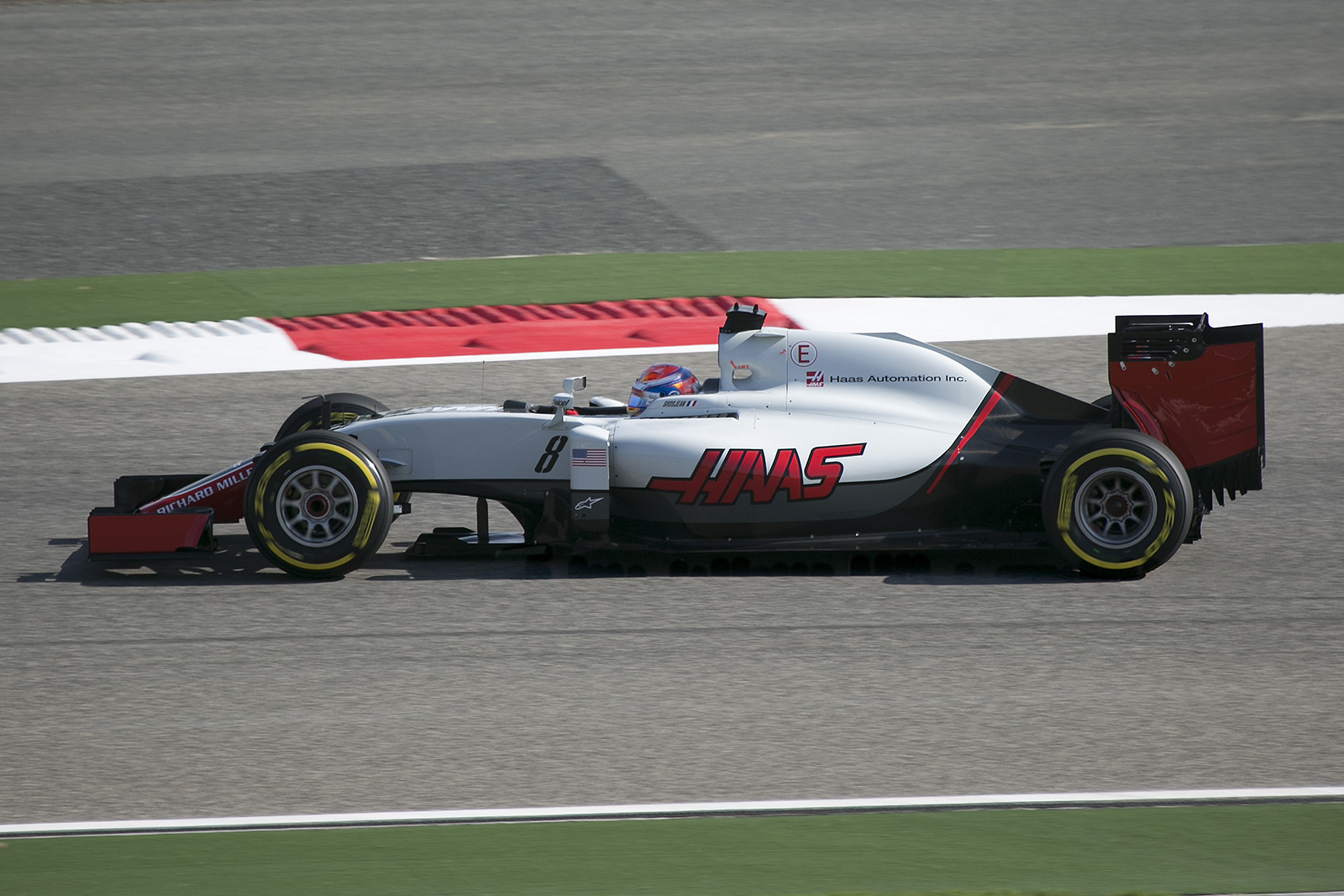 Romain Grosjean at the 2016 Bahrain Grand Prix